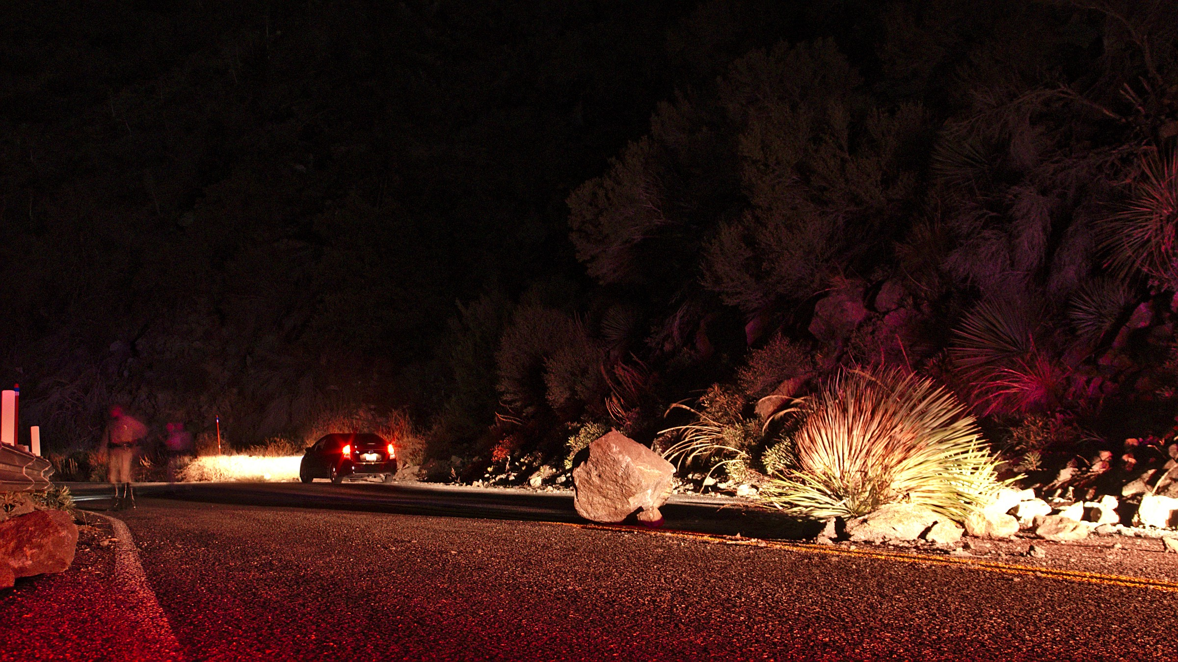 One of several piles of rock and plant debris being removed by the California Highway Patrol on the Angeles Crest Highway, five days after a light rain.